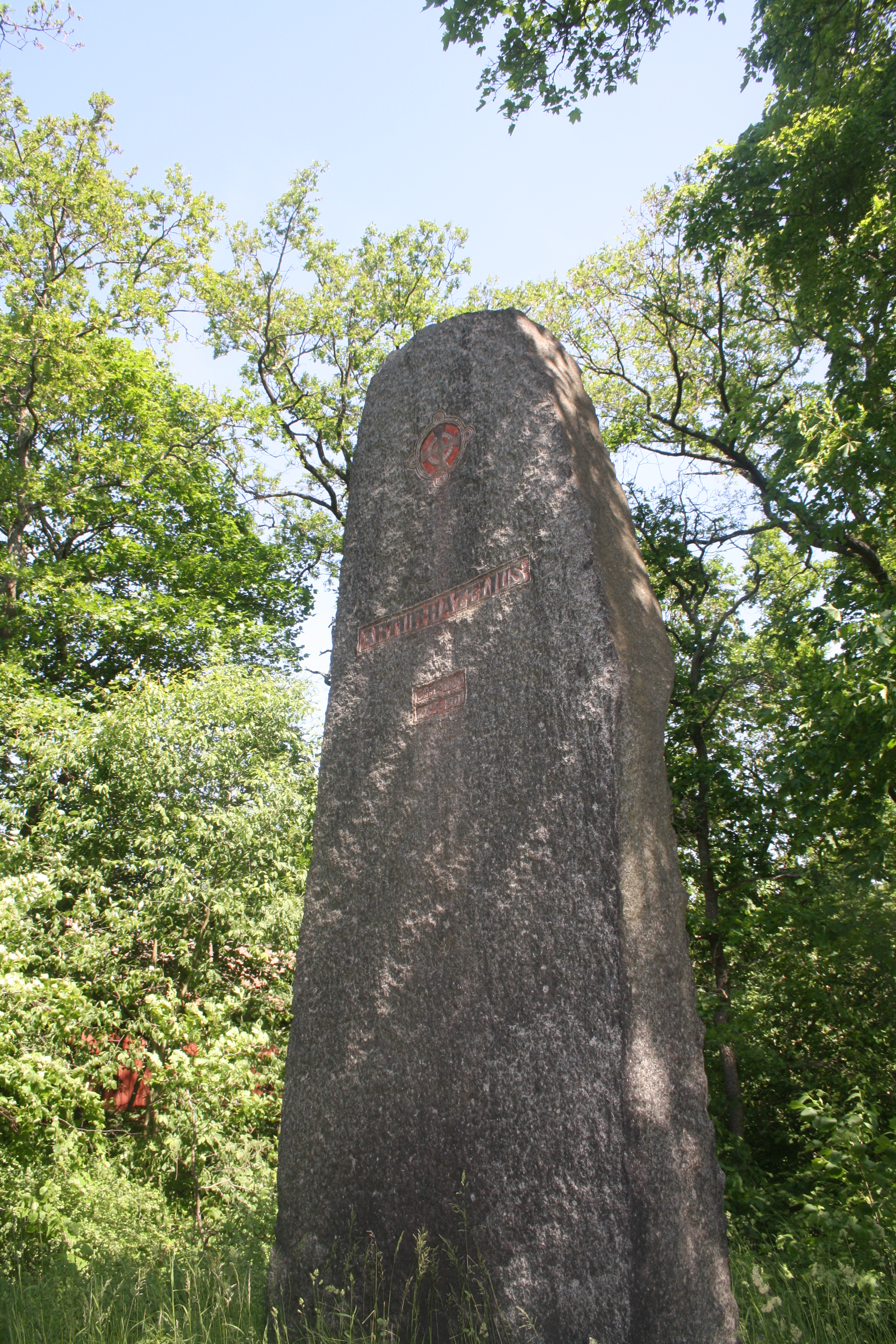 Skansen in Stockholm, Sweden at National Day of Sweden.